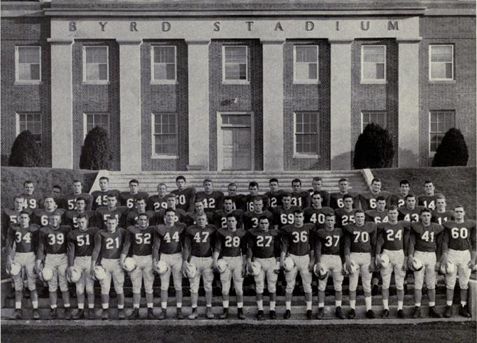 Team photograph of the 1951 Maryland Terrapins posed in front of Byrd Stadium